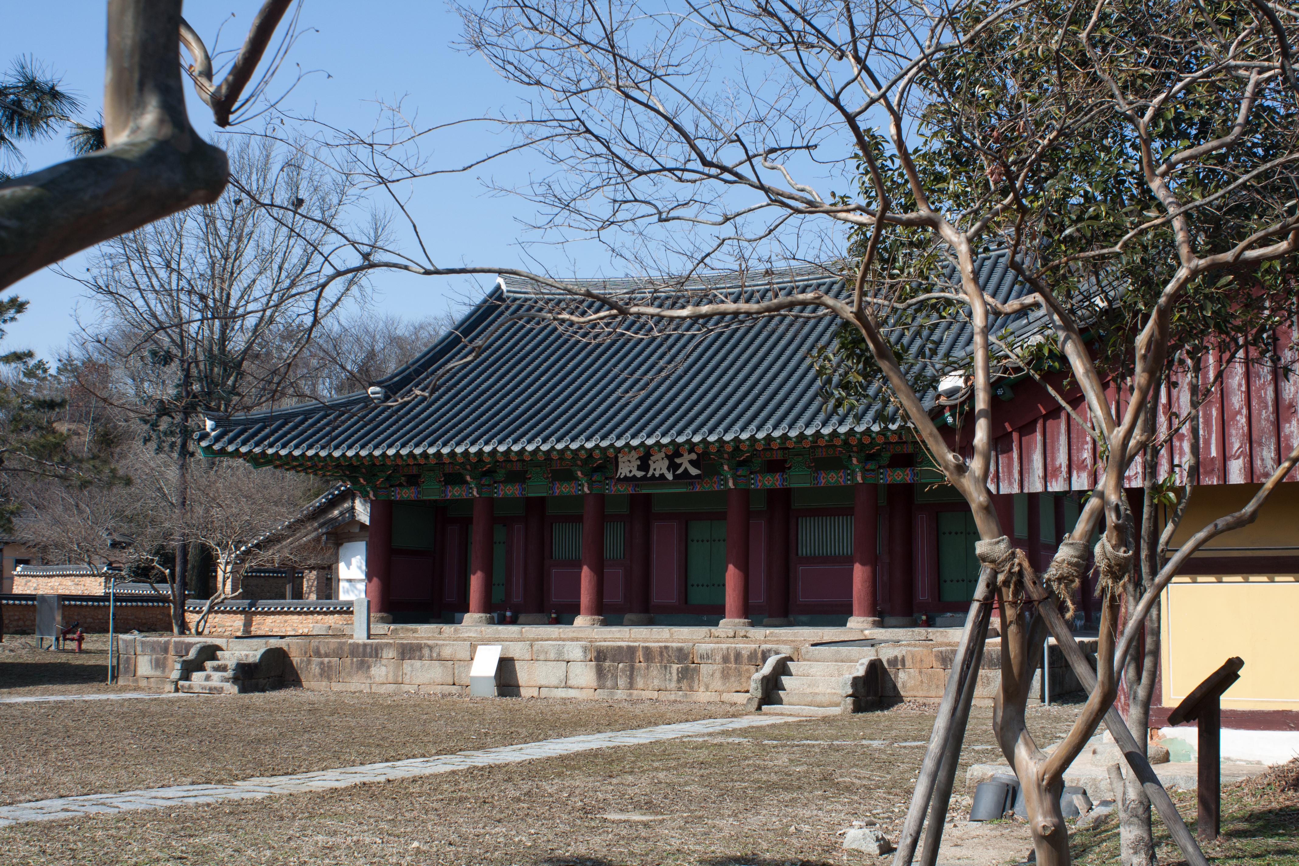 Daeseongjeon shrine at the Naju hyanggyo in Naju, South Korea.